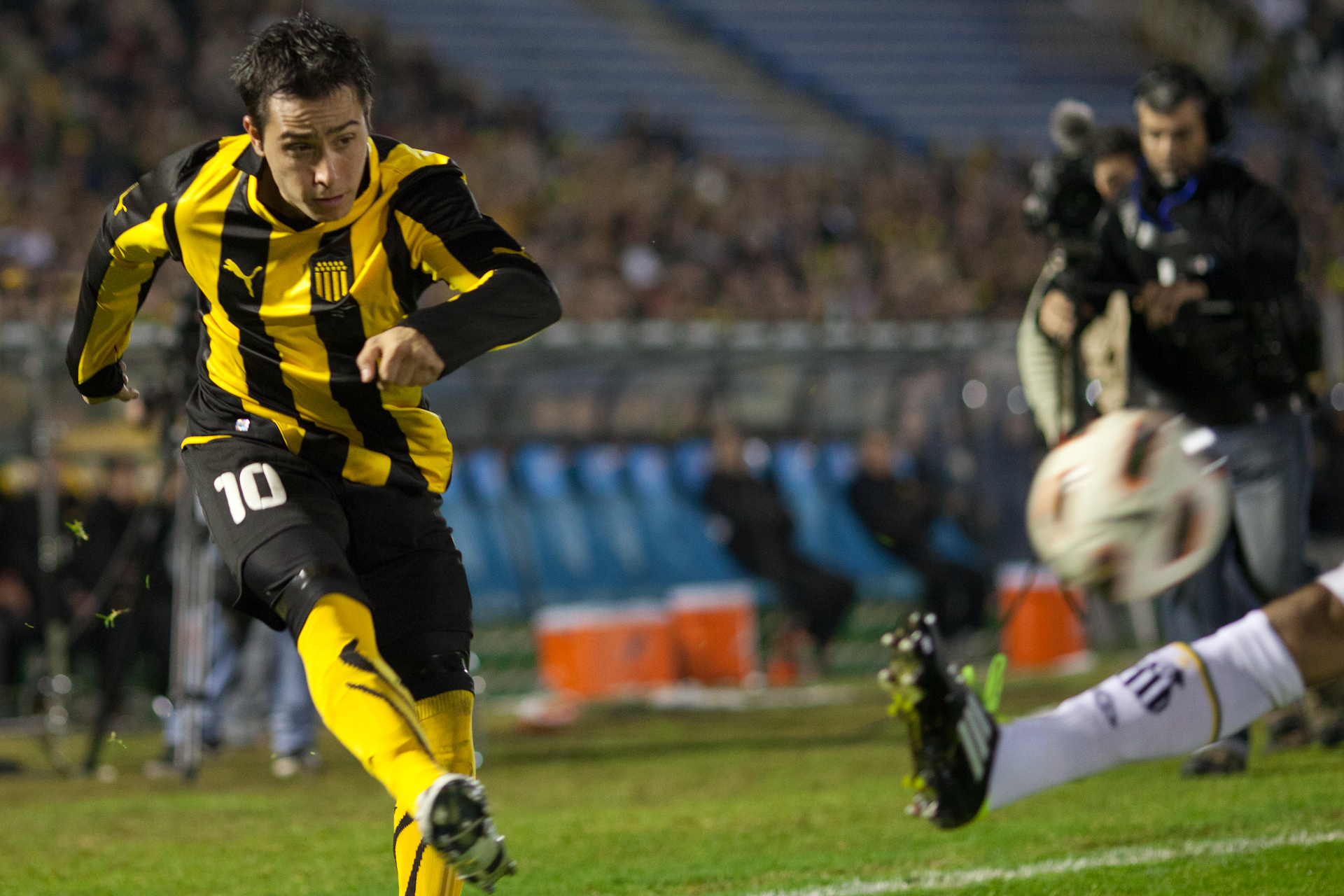 Alejandro Martinuccio playing for Peñarol against Santos during the 2011 Copa Libertadores.